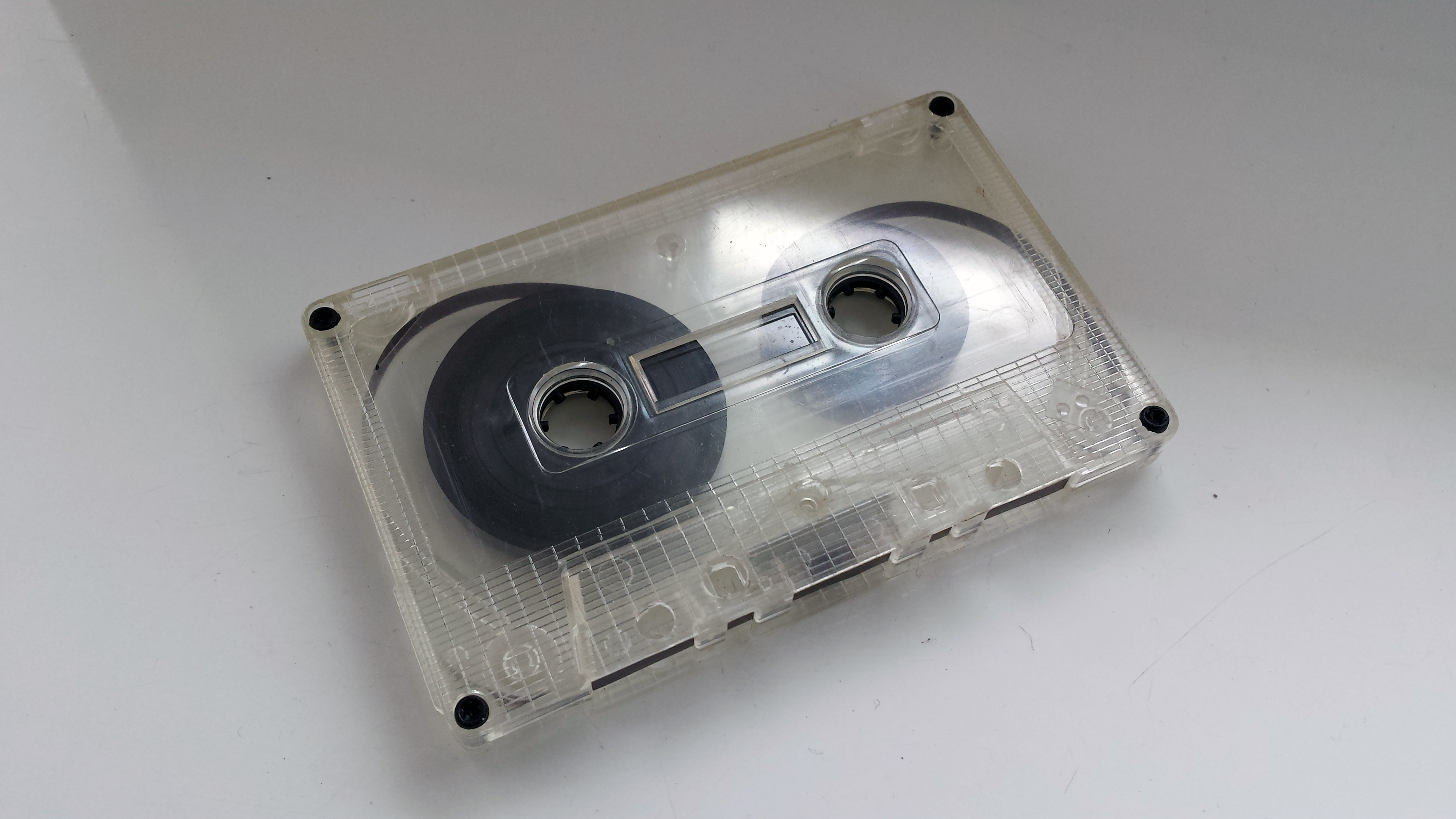 Typical Compact Cassette